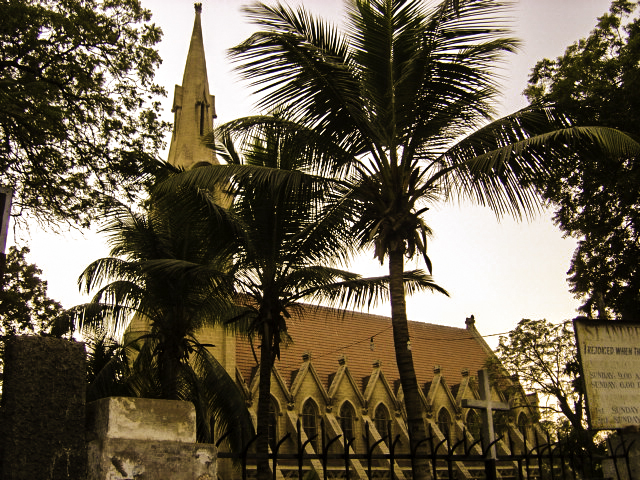 St. Andrew's Church This is a photo of a monument in Pakistan identified as the SD-P-202